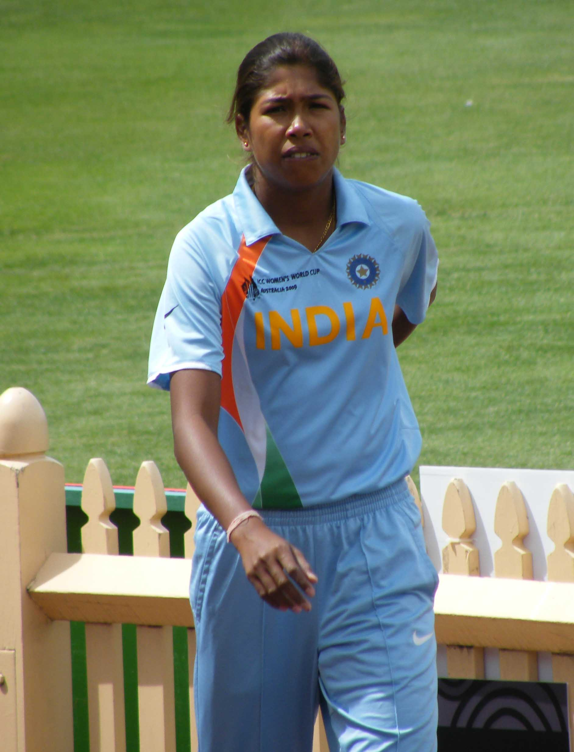 Jhulan Goswami of India - ICC Women's Cricket World Cup, Sydney, March 2009.